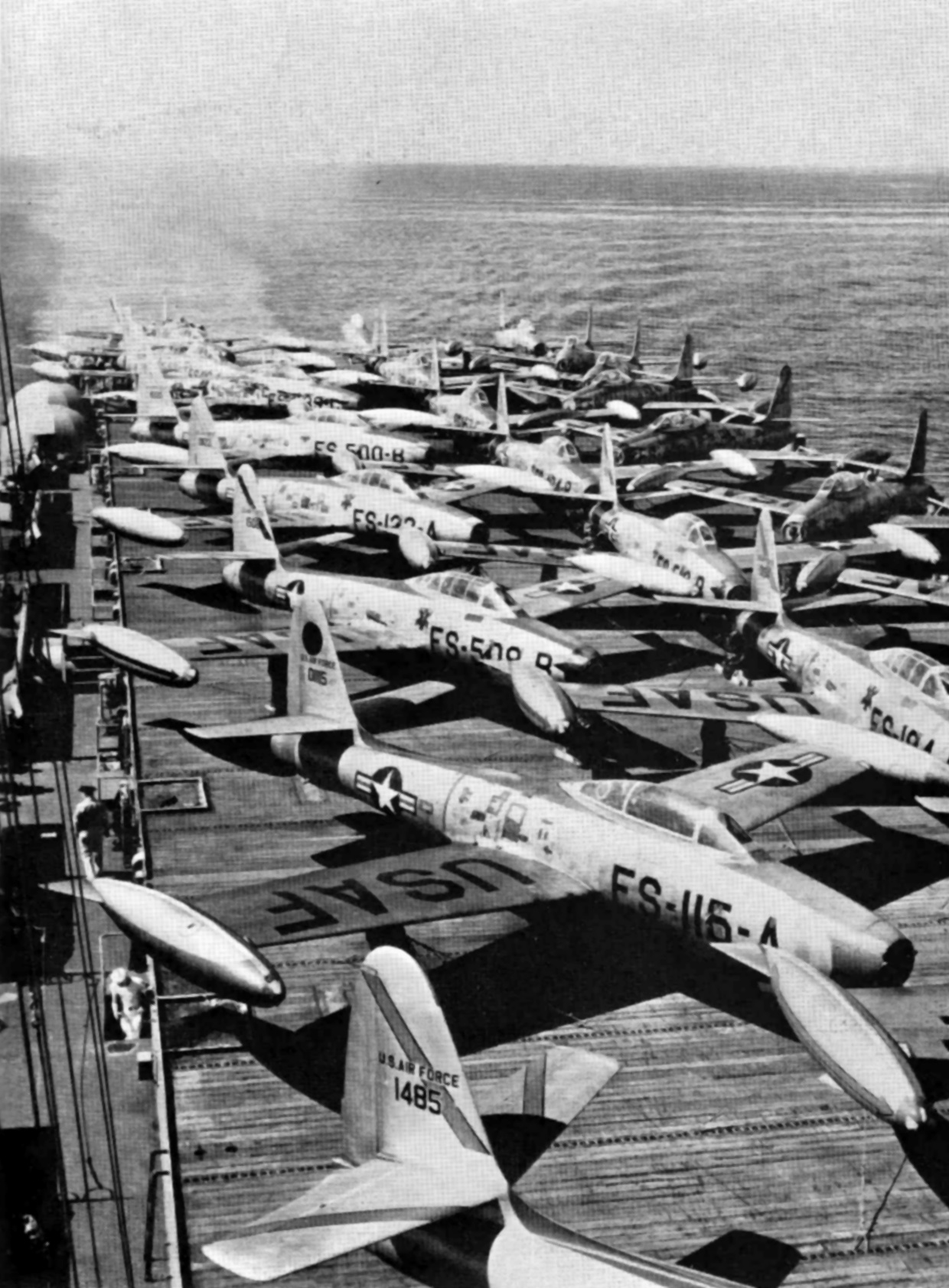 U.S. Air Force Republic F-84E Thunderjet fighters en route to Japan during the Korean War aboard the Military Sealift Service escort carrier USS Sitkoh Bay (CVE-86), August 1951. The aircraft were from the 12th Fighter-Escort Wing, its aircraft giong to Korea, wheras the personnel was deployed to Europe.